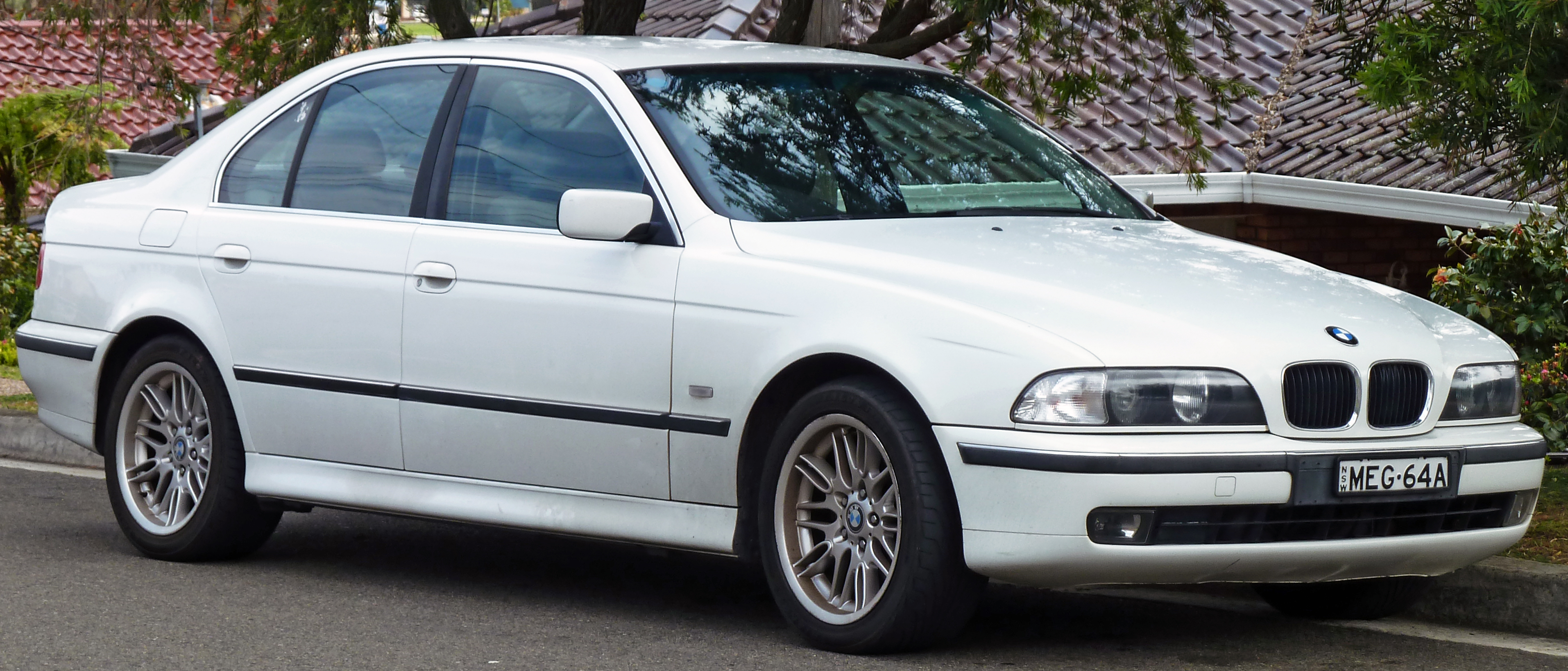 1996–2000 BMW 523i (E39) sedan. Photographed in Taren Point, New South Wales, Australia.